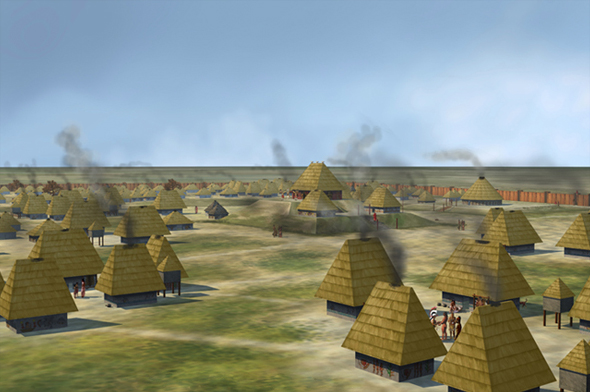 An illustration of the Nodena Site (possible location of the Province of Pacaha encountered by the de Soto| Expedition), circa 1540.